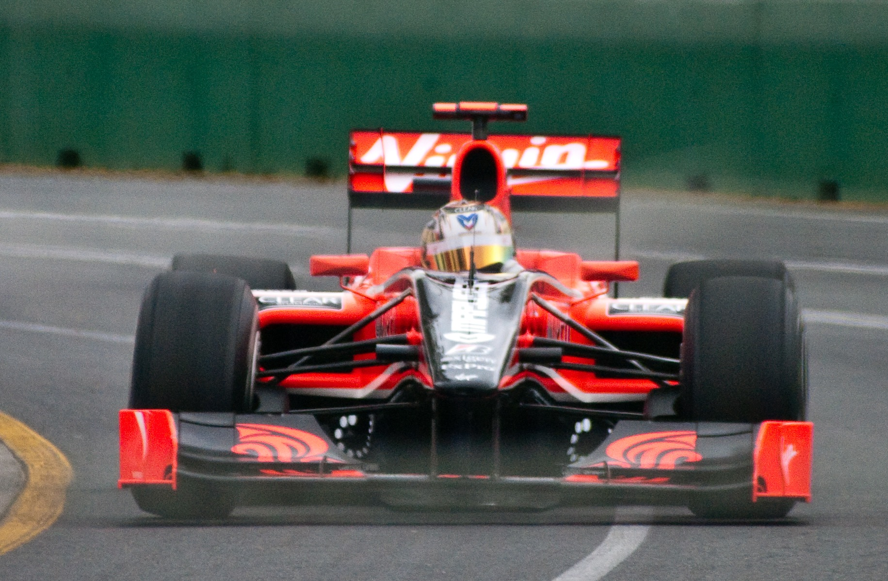 Glock in Melbourne